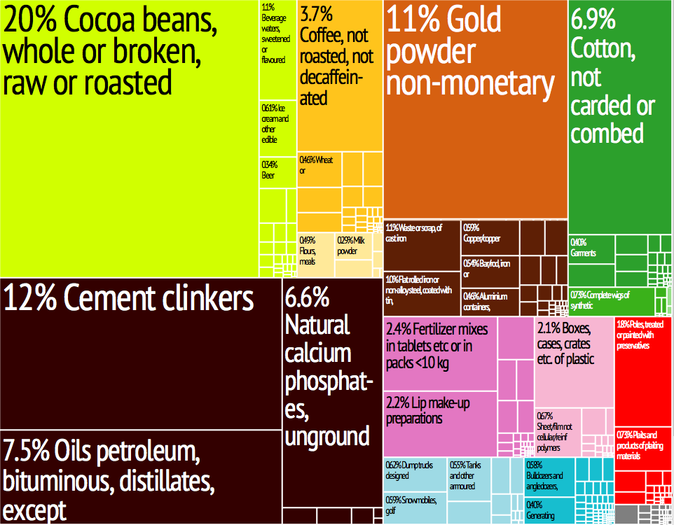 Togo Export Treemap from MIT Harvard Economic Complexity Observatory